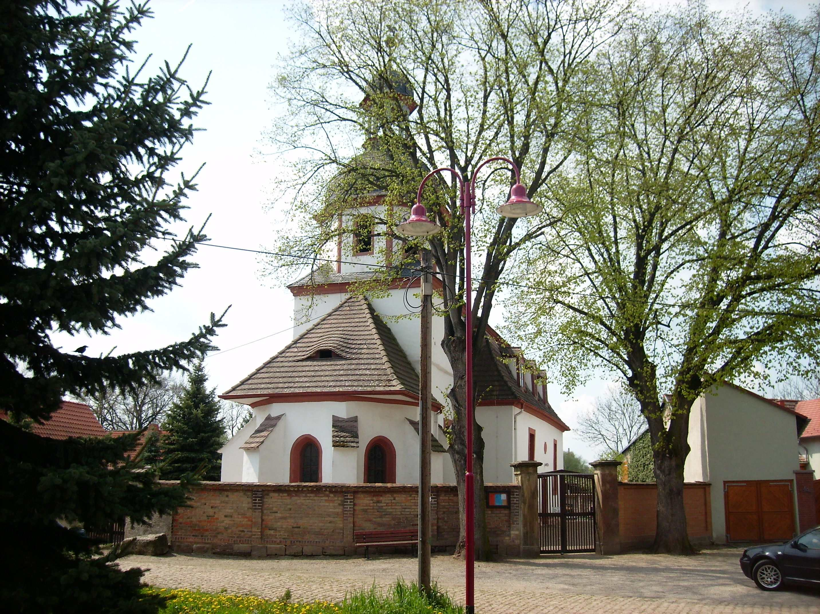 Schellsitz church (Naumburg, district of Burgenlandkreis, Saxony-Anhalt)